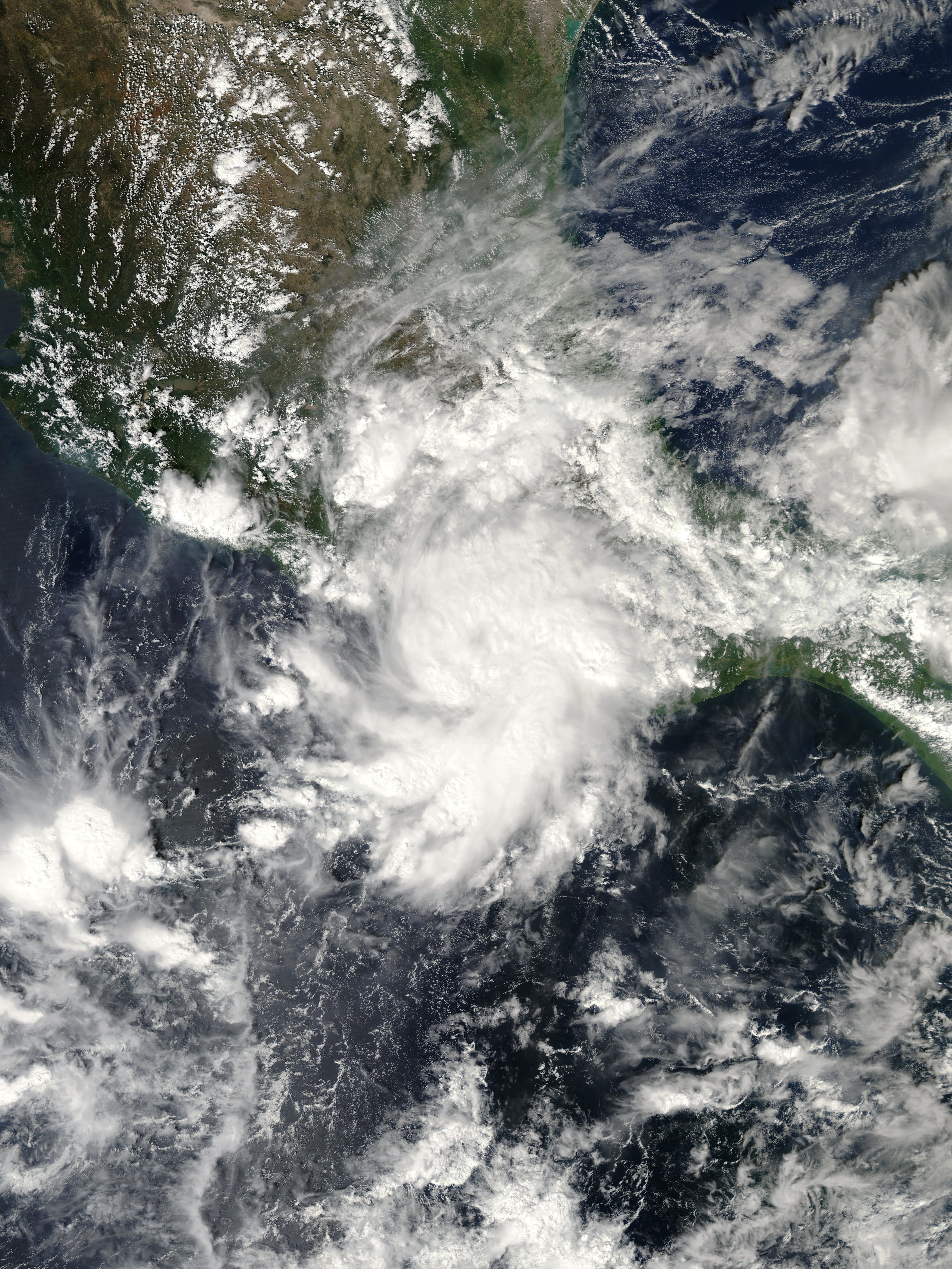 Tropical Storm Lester at 20:10 UTC on October 12, 2004